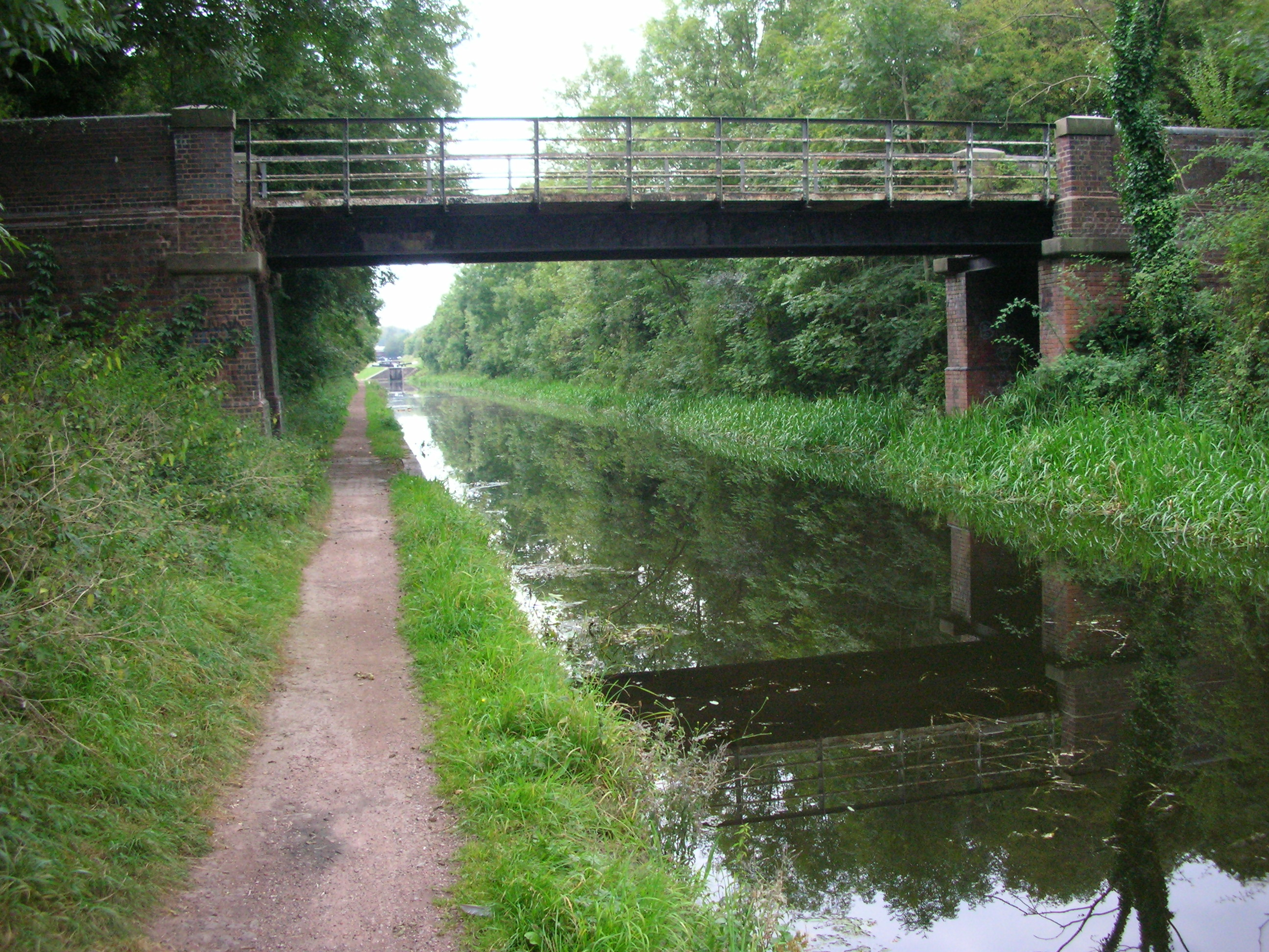 The Rushall Canal, West Midlands, England. In the distance is the bottom lock (of nine). Photographed by me 13 September 2007. Oosoom